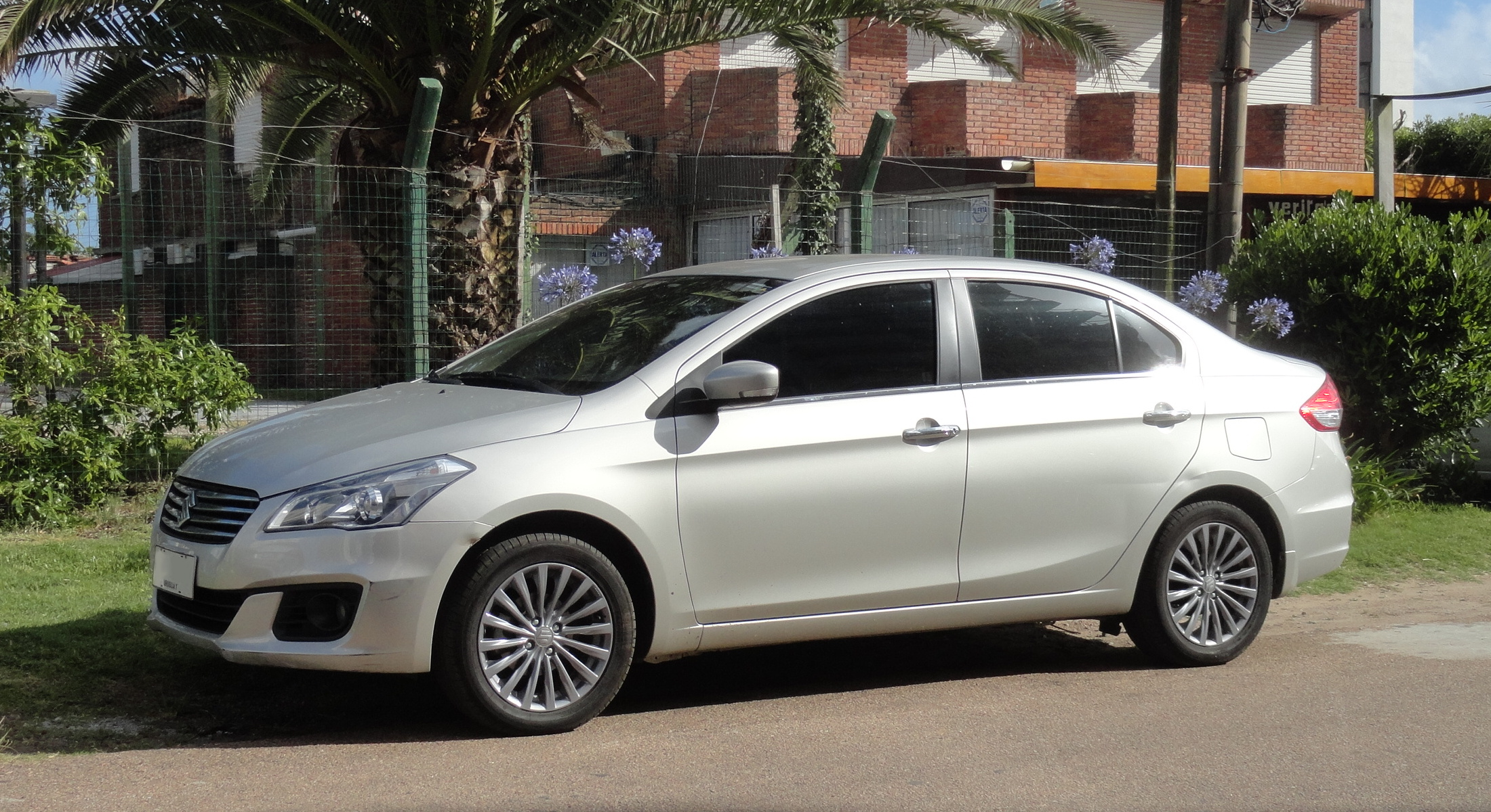 Suzuki Ciaz 2015 photographed in Punta del Este (Uruguay)